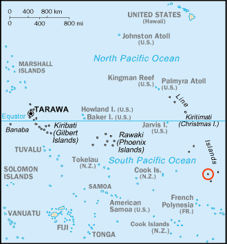 Map of Kiribati, adapted version of the post-1995 South Pacific section of Kr-map.png with Vostok Island highlighted